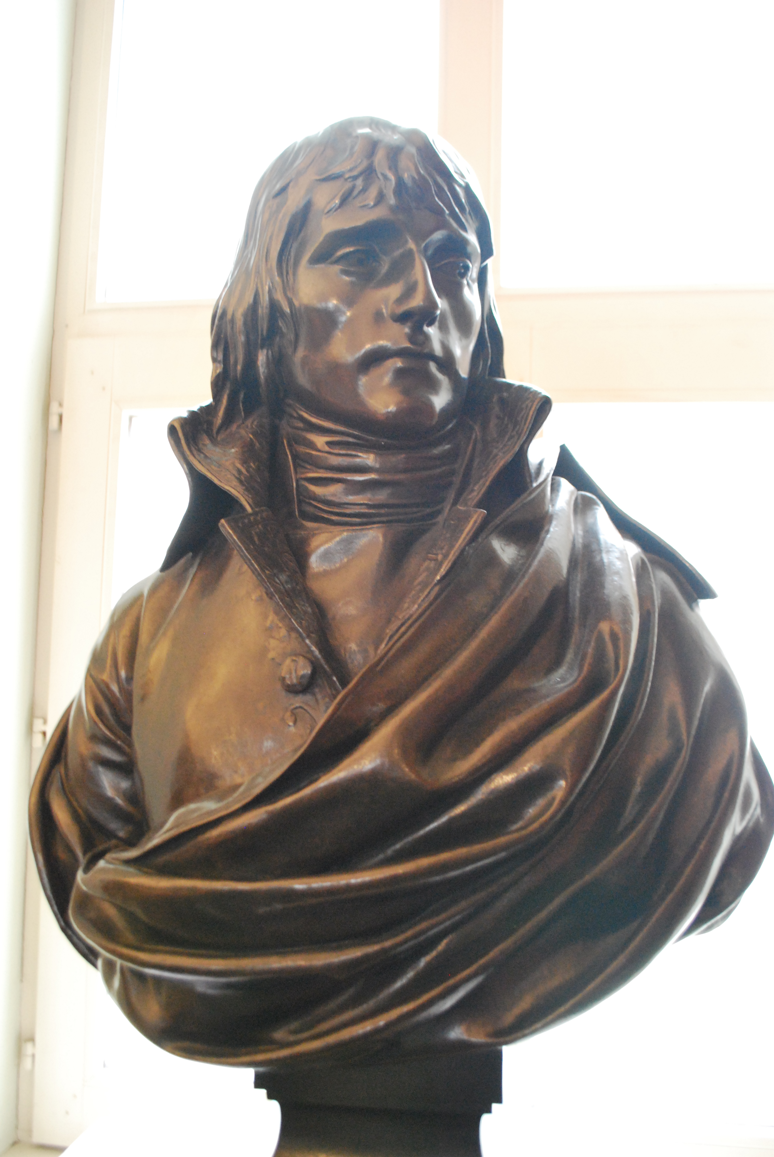 Bust of Napoléon Bonaparte, general-in-chief of the army of Orient. Bronze by Charles-Louis Corbet, 1798. Inv. 1996-14.